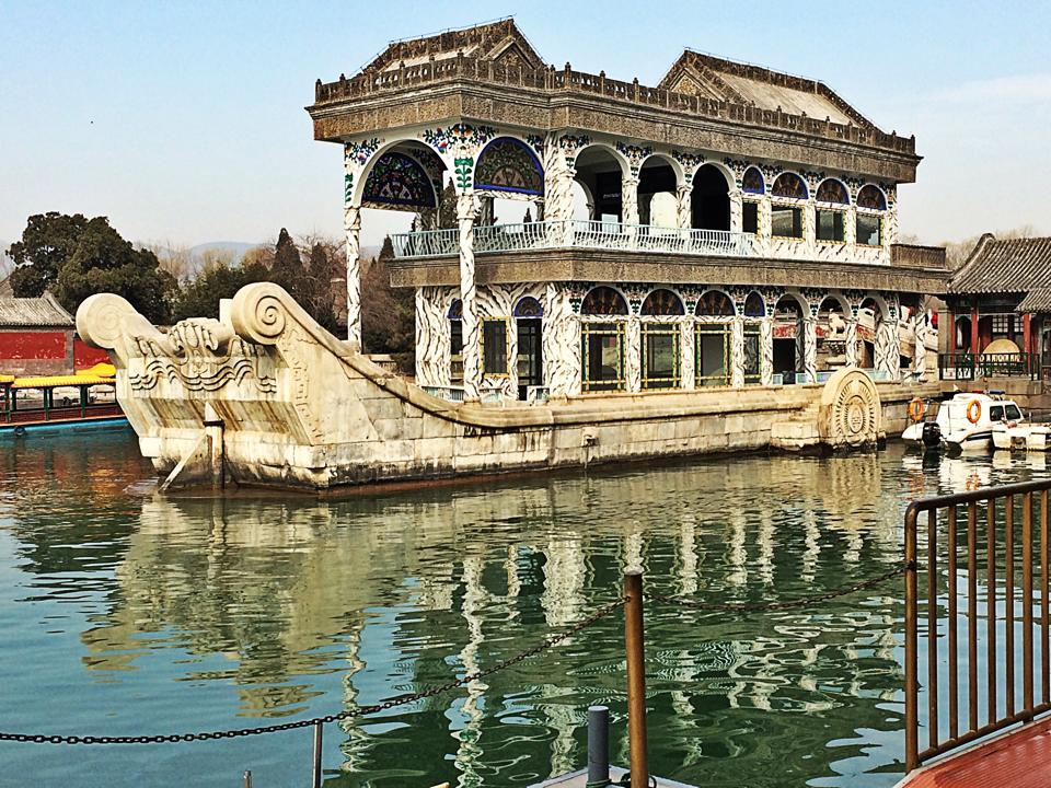 Beautiful Marble boat at Summer Palace